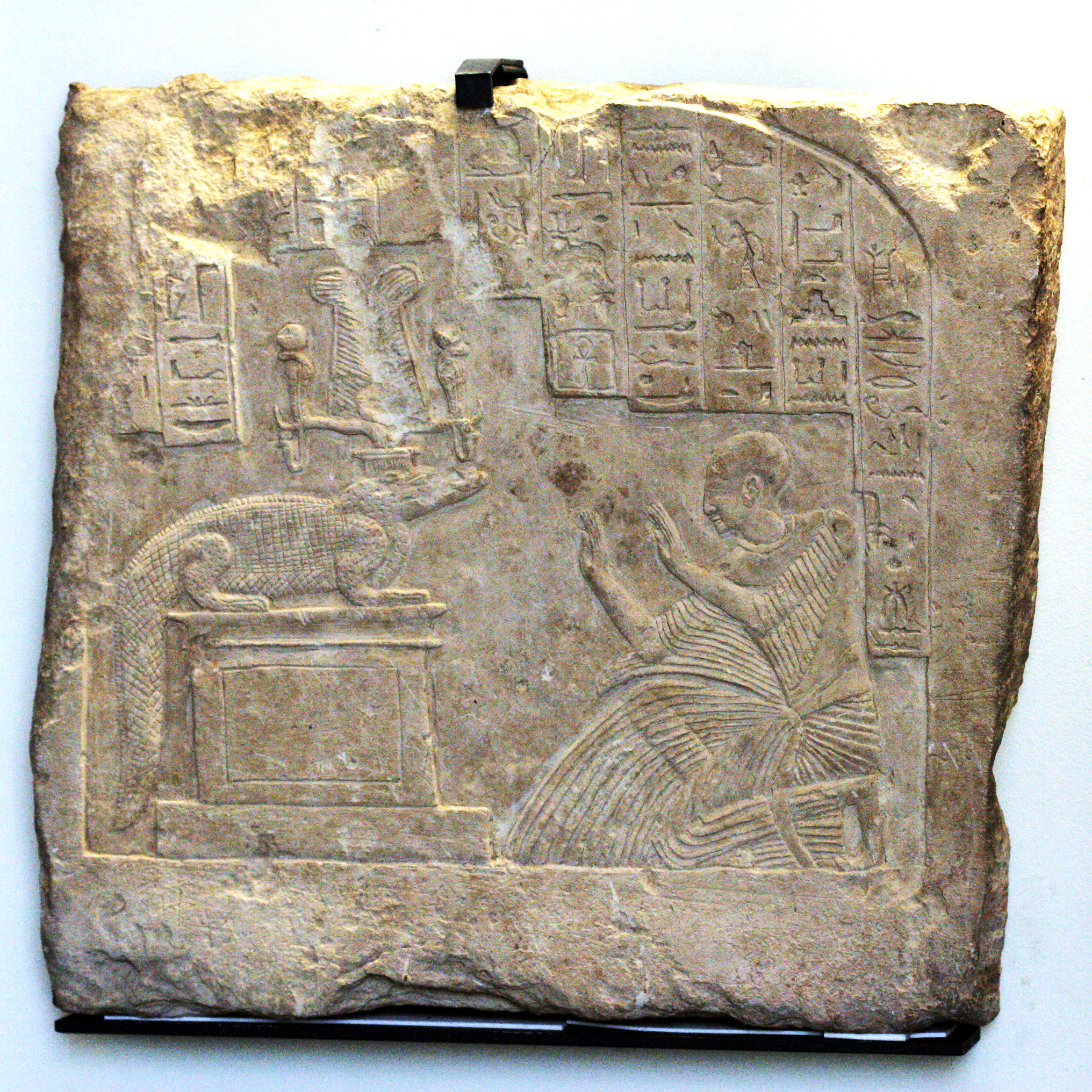 Aamerut praying Sobek-Ra LimestoneFor Scribe Aamerout:6 columns above scribe-(reading left to right)(the base column is column 1, on right(reading-last))Column 6–(Register 6))Column 5–(Register 5))Column 4–(Register 4))Column 3–(Register 3))–meteor-with-2-tails, Hotep-hieroglyphColumn 2–(Register 2))–Stair-double, eN-Ka-eN-(for the Spirit of)Column 1–(Register 1))–Scribe-(scribe equipment), Aa-mer-R-u(coil)-tDimensions 42 cm high, 45 cm wide, 5.50 cm deepCollection Louvre Museum (Inventory)Native nameMusée du LouvreParent institutionÉtablissement public du musée du LouvreLocationParisCoordinates48° 51′ 37.42″ N, 2° 20′ 15.36″ E Established1793Web page control : Q19675 VIAF: 257711507 ISNI: 0000 0001 2260 177X ULAN: 500125189 LCCN: n80020283 NLA: 35912436 WorldCat institution QS:P195,Q19675Current location Sully, Rez-de-chaussée, Les animaux et les dieux, Salle 19, Vitrine 07 : Le culte des dieux-animaux au Nouvel EmpireAccession number E 20907Credit line UnspecifiedReferences Louvre.frSource/Photographer Rama